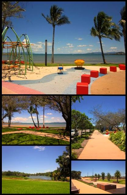 This is a collage of images of Bowen.